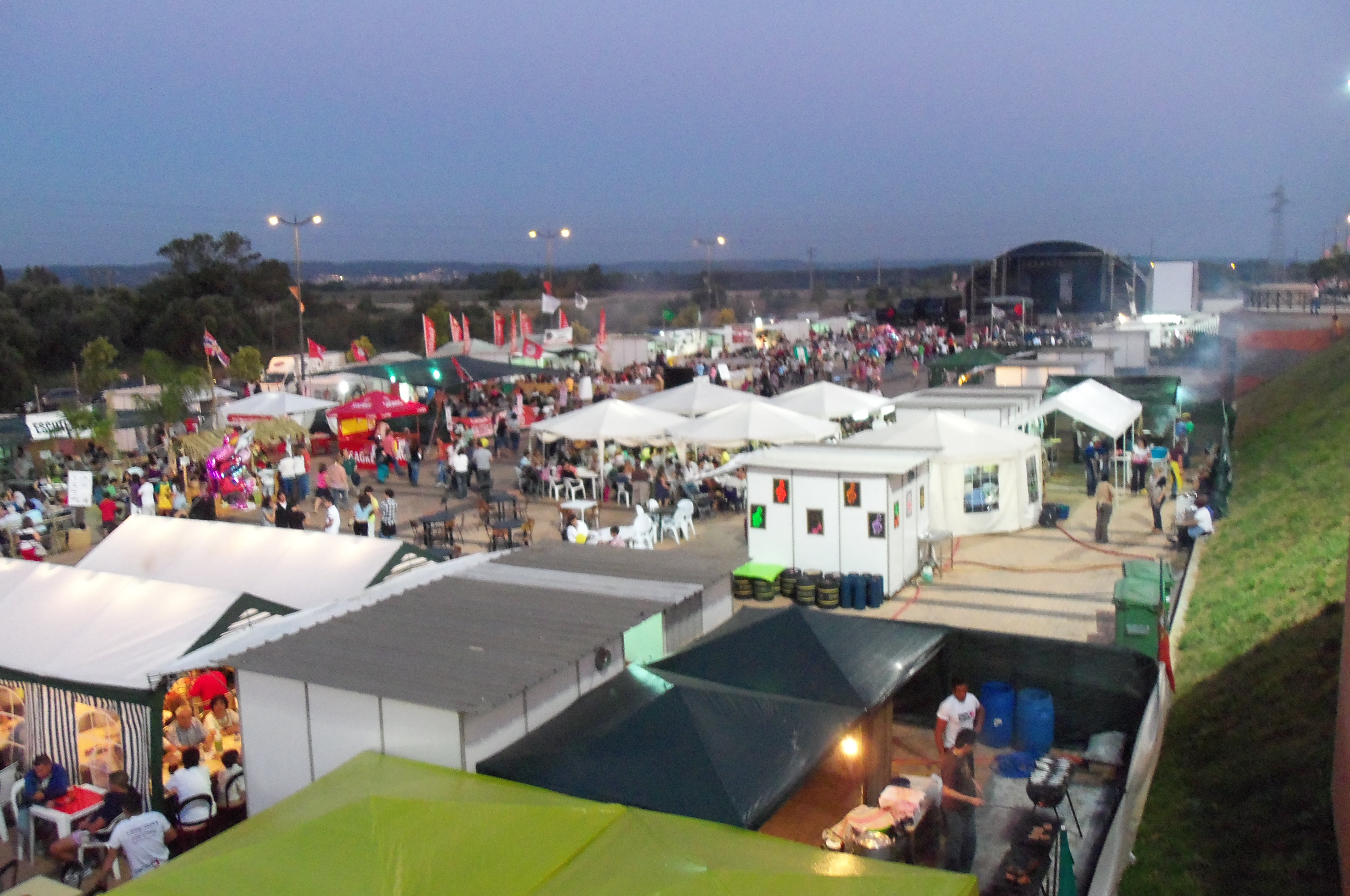 Partial view of the enclosure where the celebrations took place in St. John and City of 2011.